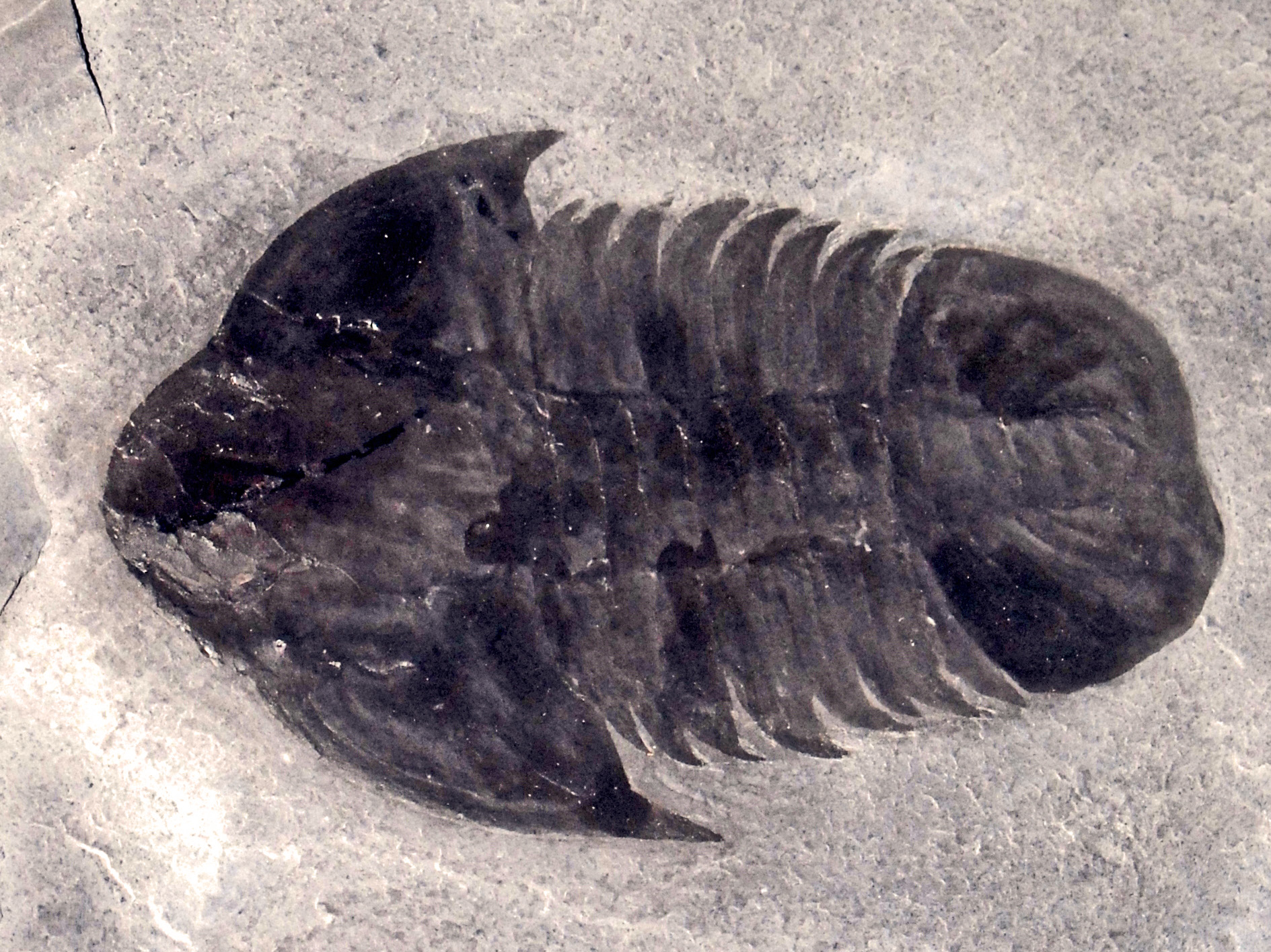 Hemirhodon amplipyge